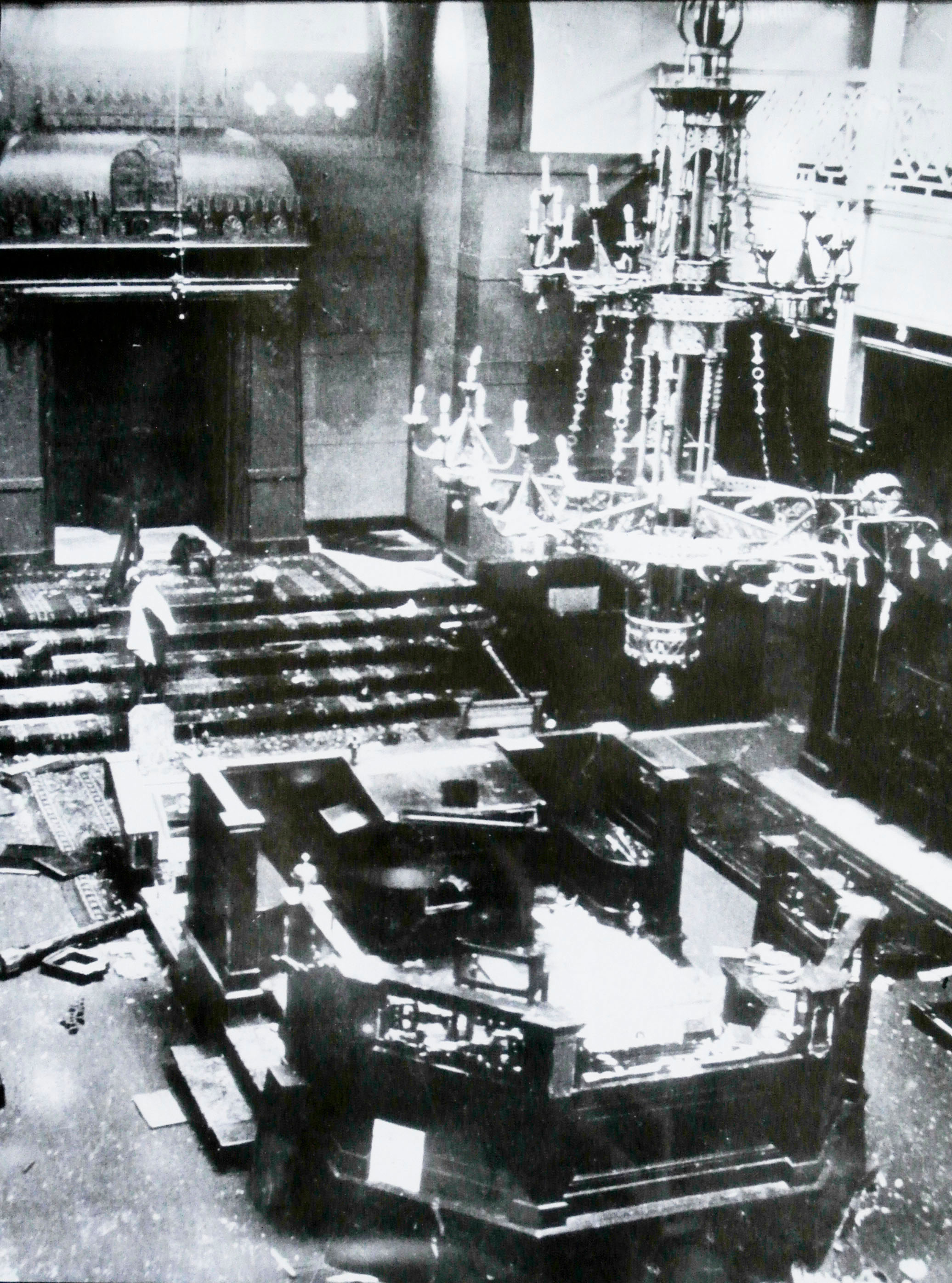 The Great Synagogue of Deventer: In 1941 by Dutch nazi's (members of the Dutch nazi-party NSB) destroyed interior